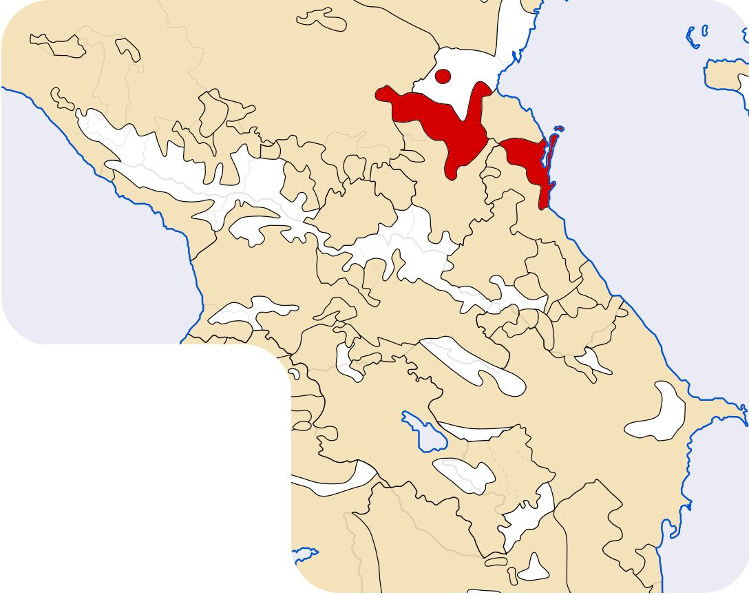 Location map of the Nogais.